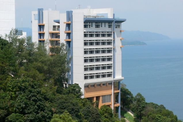 Daisy Li Hall, one of the dormitories in New Asia College of The Chinese University of Hong Kong